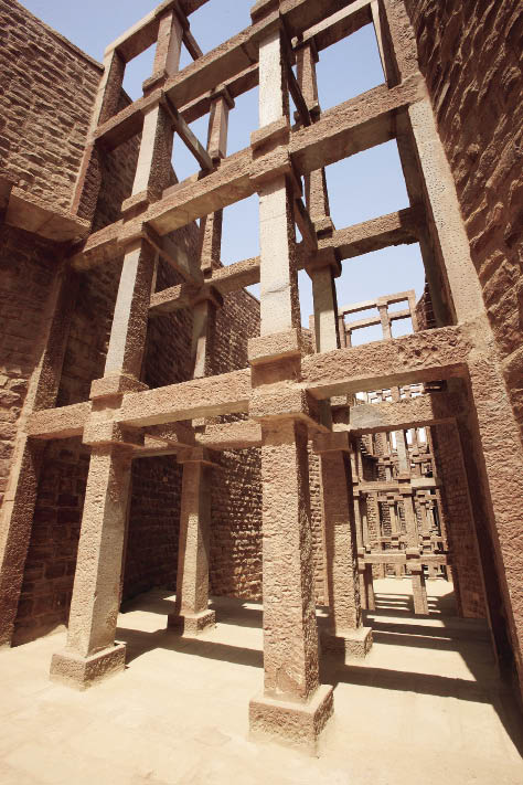 Birkha Bawari1, Jodhpur